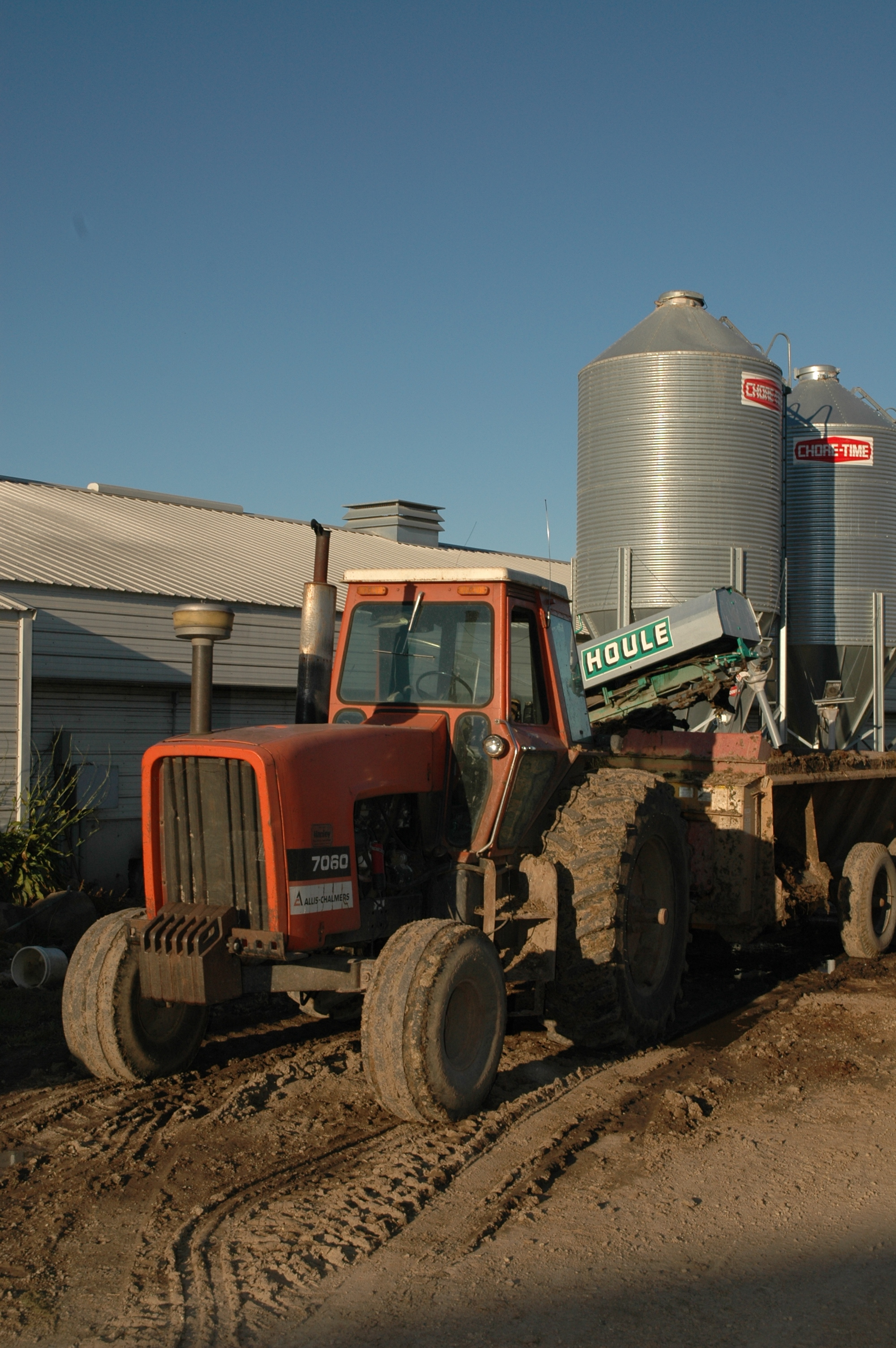 Allis-Chalmers 7060 tractor with a manure spreader on a farm somewhere in Wisconsin, USA